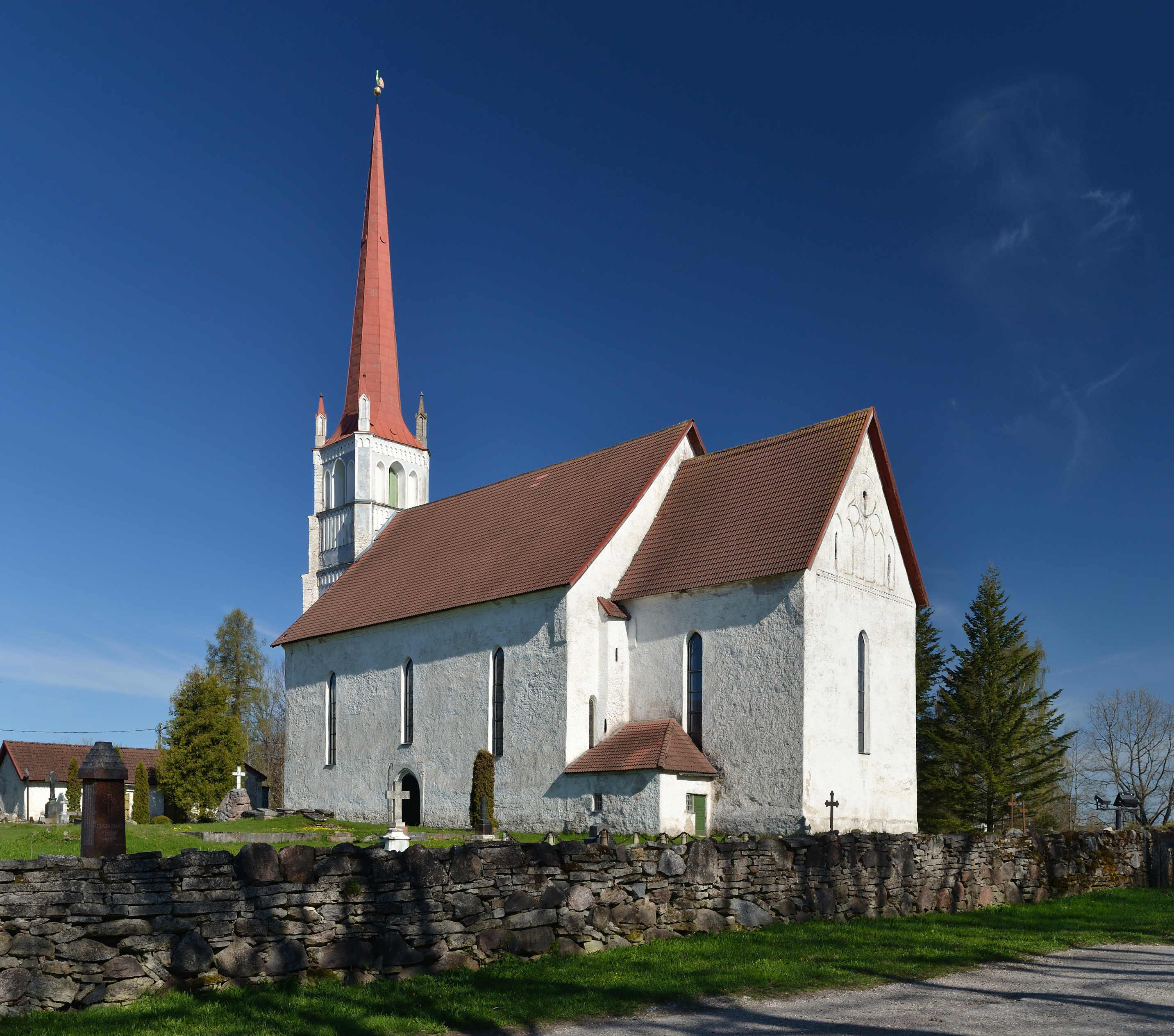 Türi church